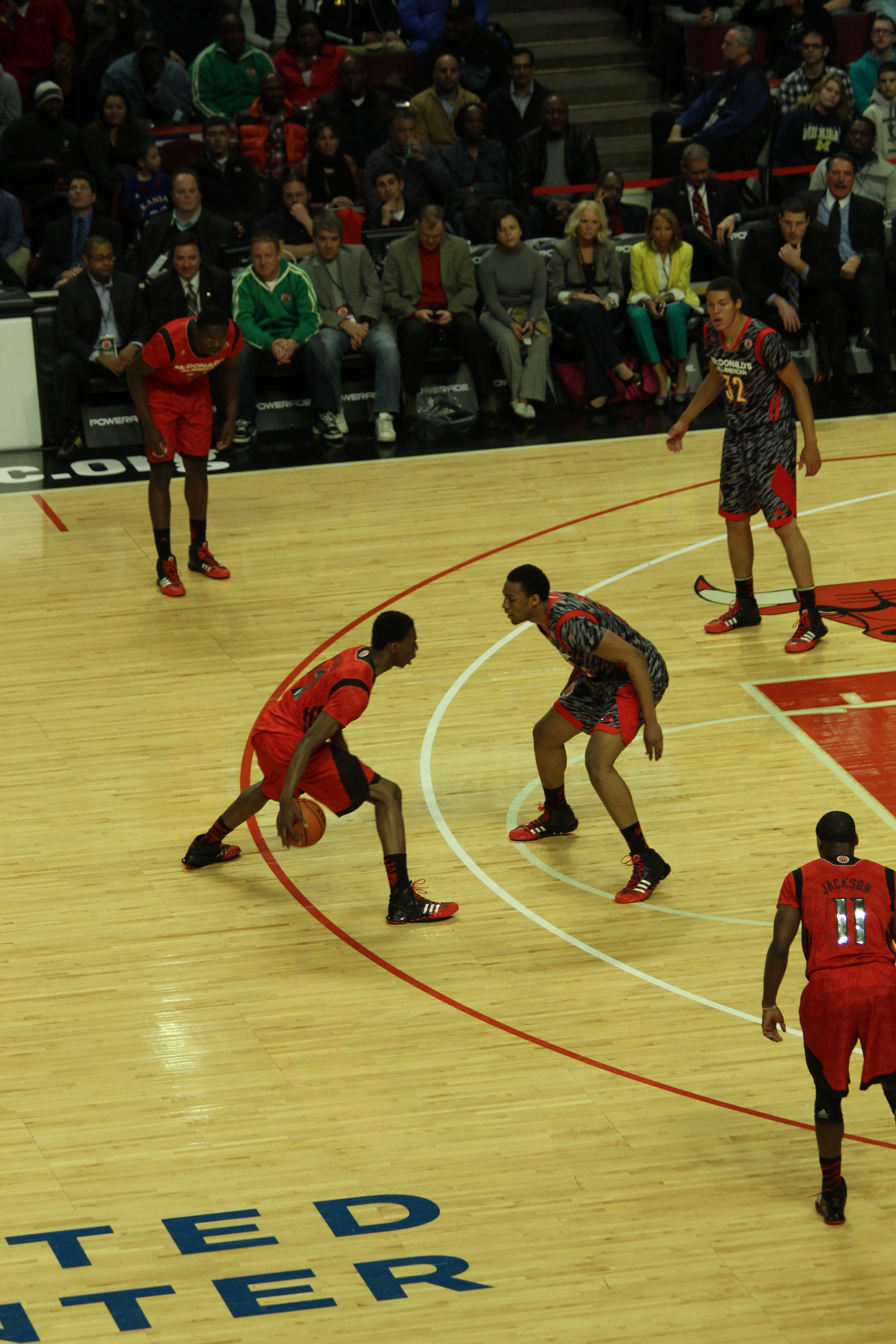 Andrew Wiggins drives on Jabari Parker as Aaron Gordon (#32) and Julius Randle (#30) look on in the w:2013 McDonald's All-American Boys Game